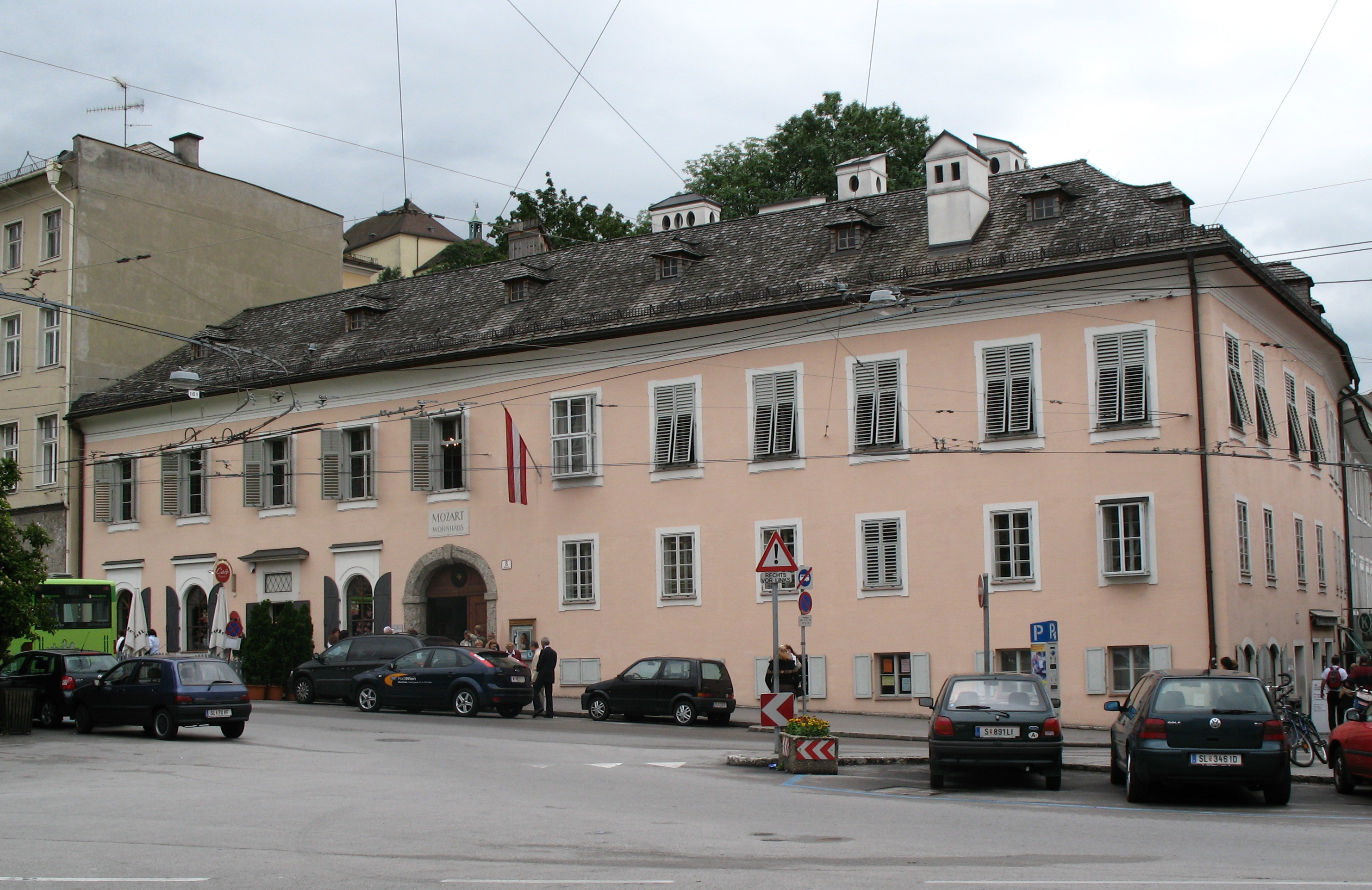 Residence of the Mozart family in Salzburg, Austria. The original building has been destroyed in World War II. The house which can be found here today is a reconstruction according to original plans opened in 1996.